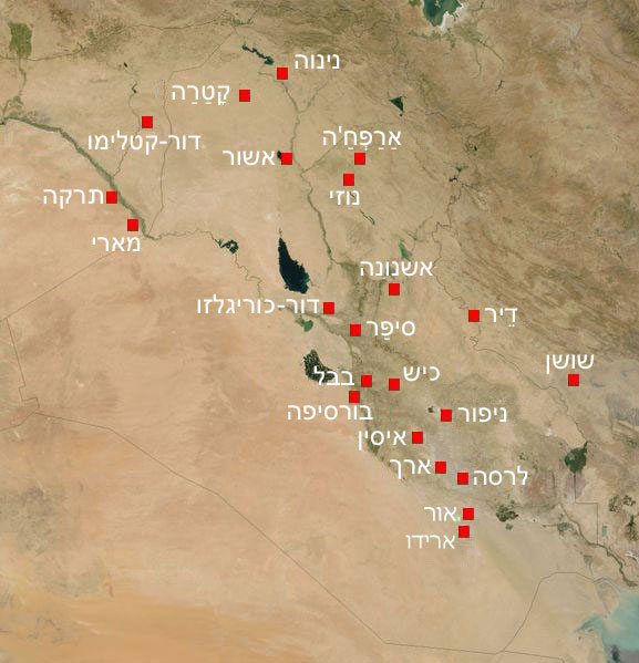 La Mésopotamie au IIe millénaire av. J.-C. Mesopotamia in 2nd millennium BC -- 2000 BC to 1000 BC (does the French imply 2000 BC specifically?)